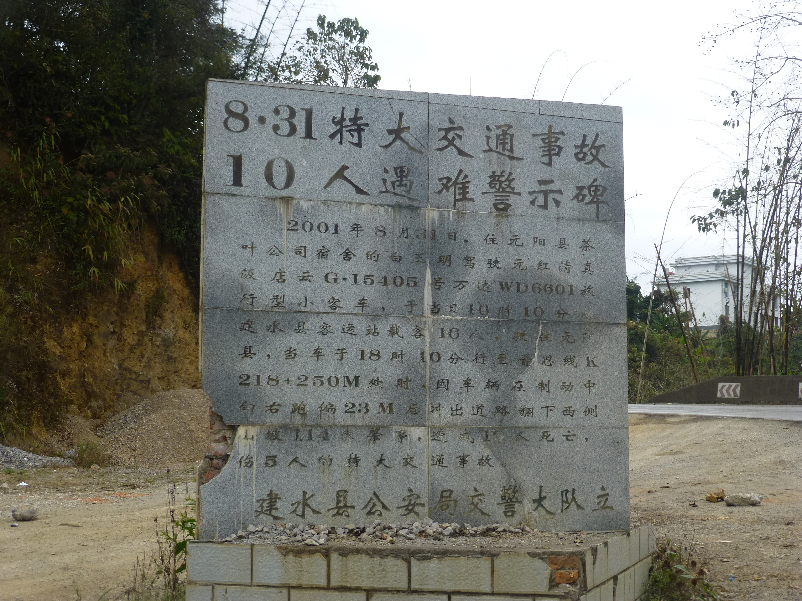 A small monument installed by the Jianshui County police department by the side of Yunnan Route 214 south of Potou Village (Potou Township, Jianshui County, Yunnan), on a fairly dangerous 38-km stretch of the road where it descends ca. 1500 m over a 38-km stretch, from Potou Village toward the Red River valley. The inscription commemorates 10 people who perished in a traffic accident at this spot (km 218.250 of Hwy 214) at 18:10 on 2001-08-31. A passenger vehicle traveling from Jianshui to Yuanyang run off the road here; 10 people died, and 5 were wounded.